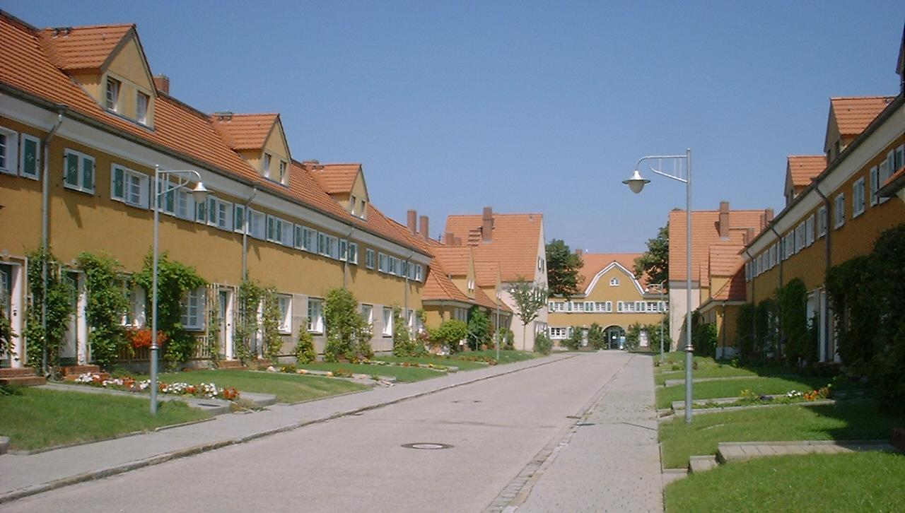 Workers' village Piesteritz in Wittenberg in Saxony-Anhalt, Germany